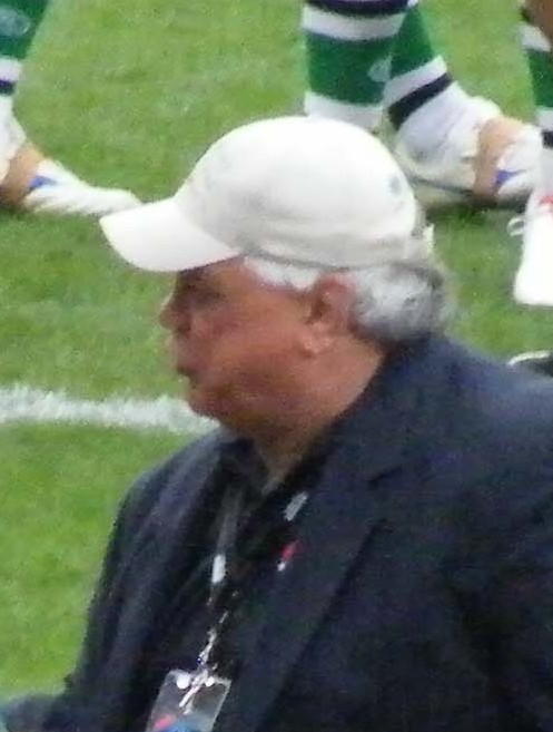 Aboriginal Selector and RL great Arthur Beetson - RLWC 2008 - Aboriginal Dreamtime Team vs New Zealand Maori